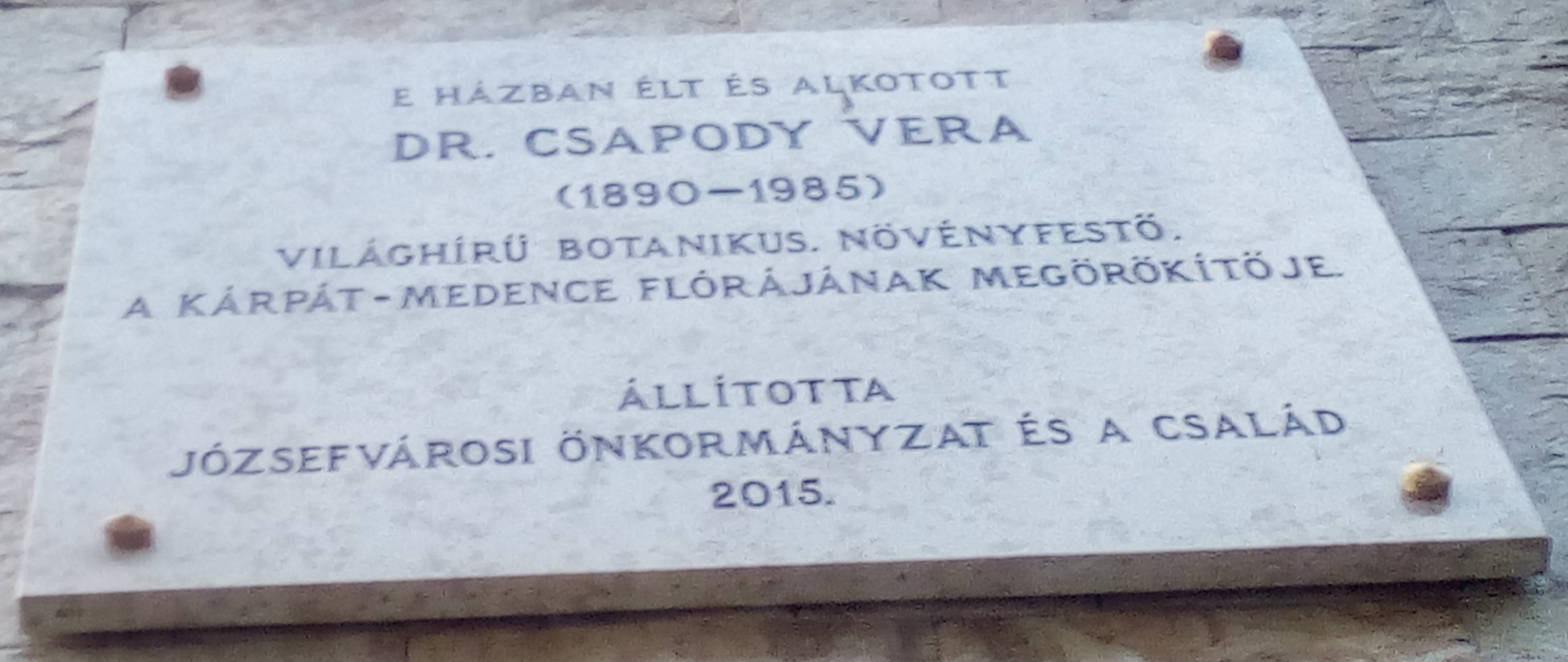 Commemorative plaque of Vera Csapody in Budapest District VIII, Baross Street No 4.